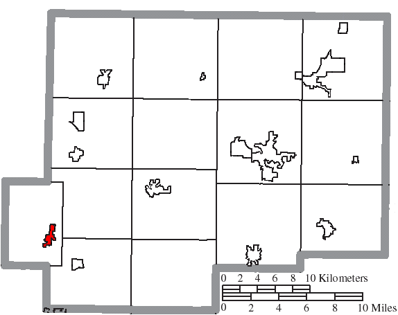 Map of the municipal and township boundaries of Putnam County, Ohio, United States, as of the 2000 census, with the location of the village of Ottoville highlighted. Township borders are shown only in unincorporated areas in order to differentiate incorporated and unincorporated areas more clearly.